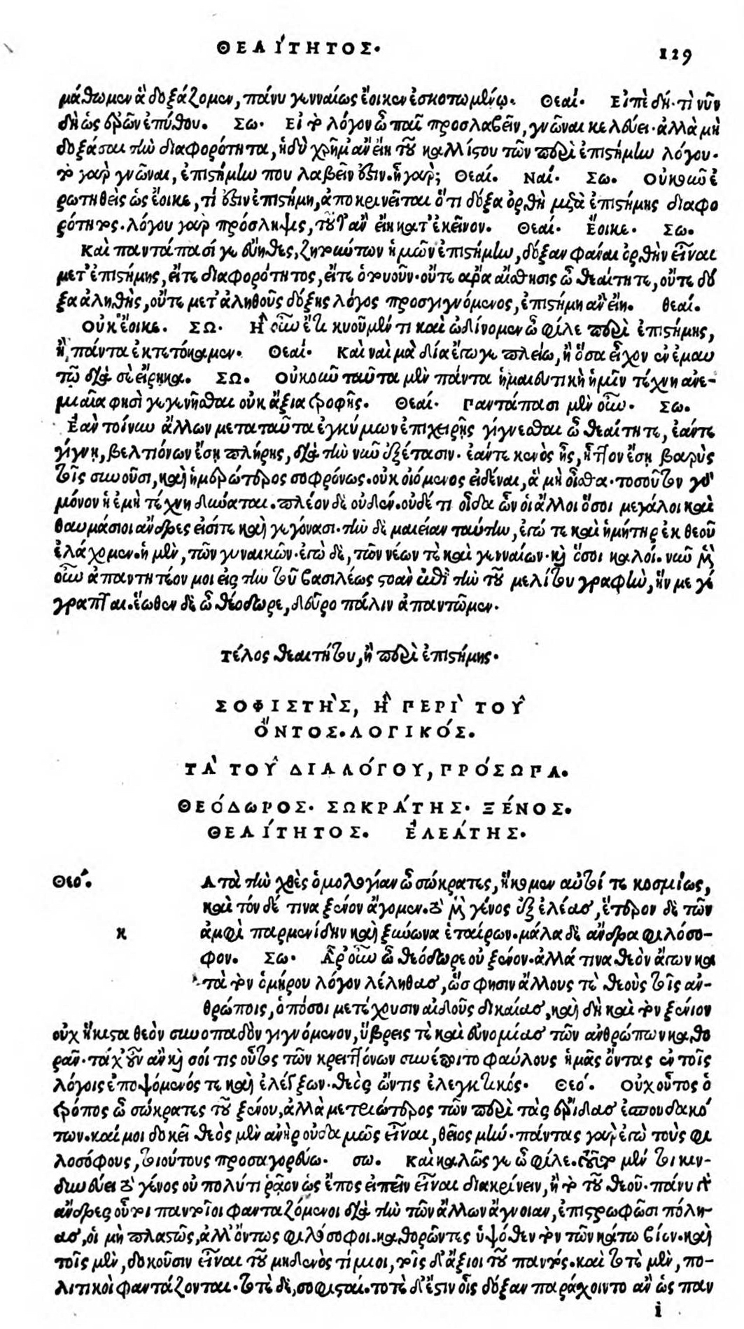 Sophistes beginning. Editio princeps, Venice 1513.